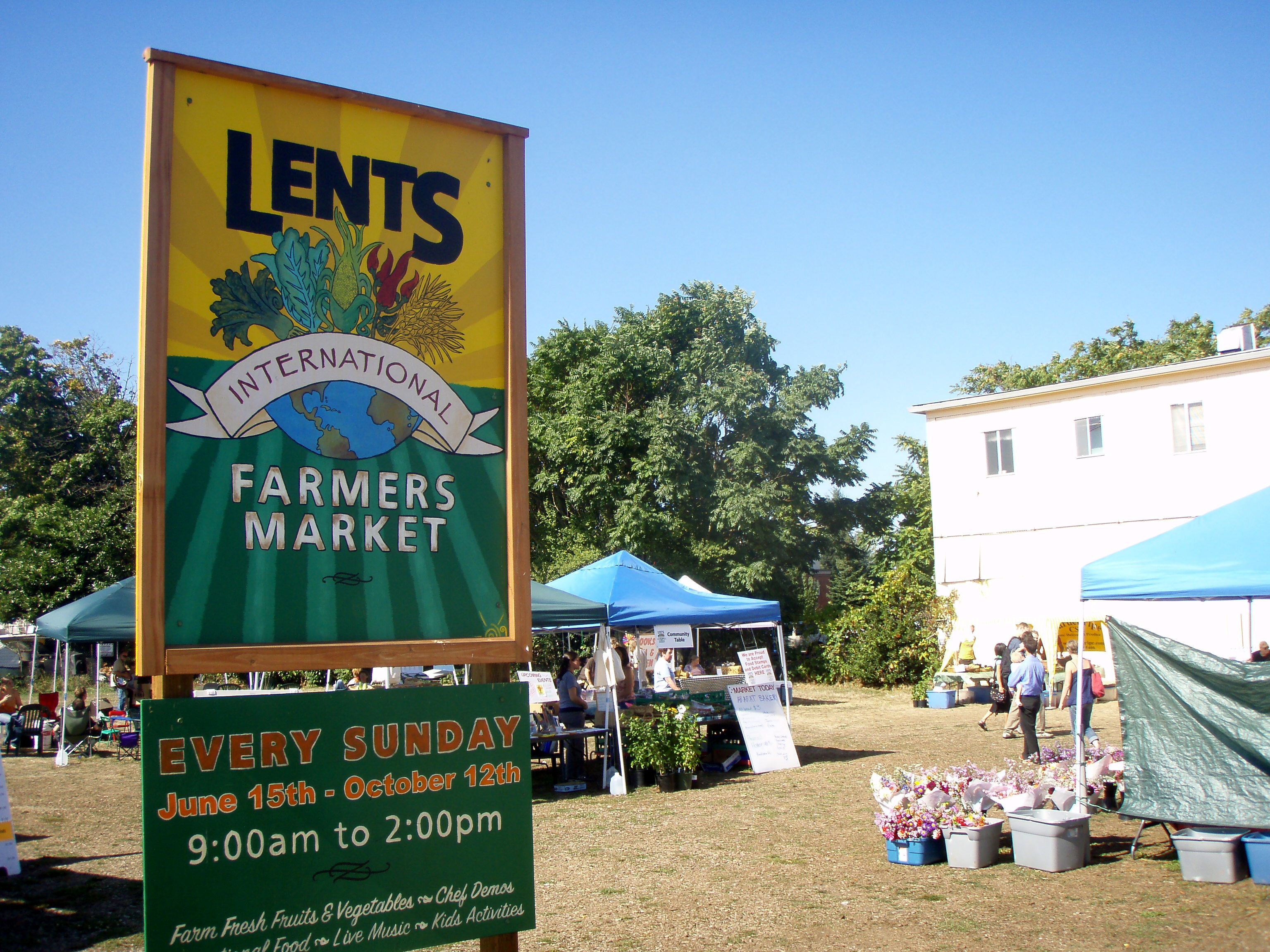 Farmers' market in Lents, Portland, Oregon